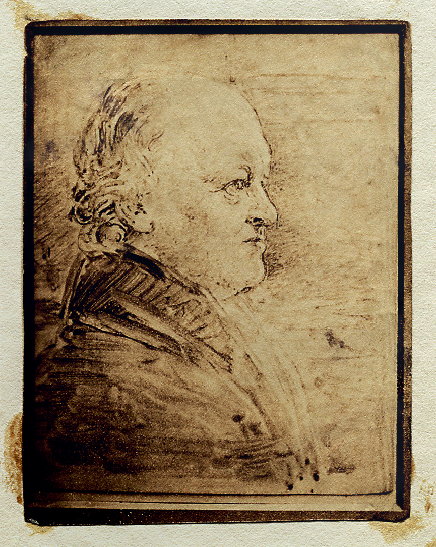 William Blake's portrait in profile, added later to Songs of Innocence and Experience. (The note at the bottom of the page is dated 1863).